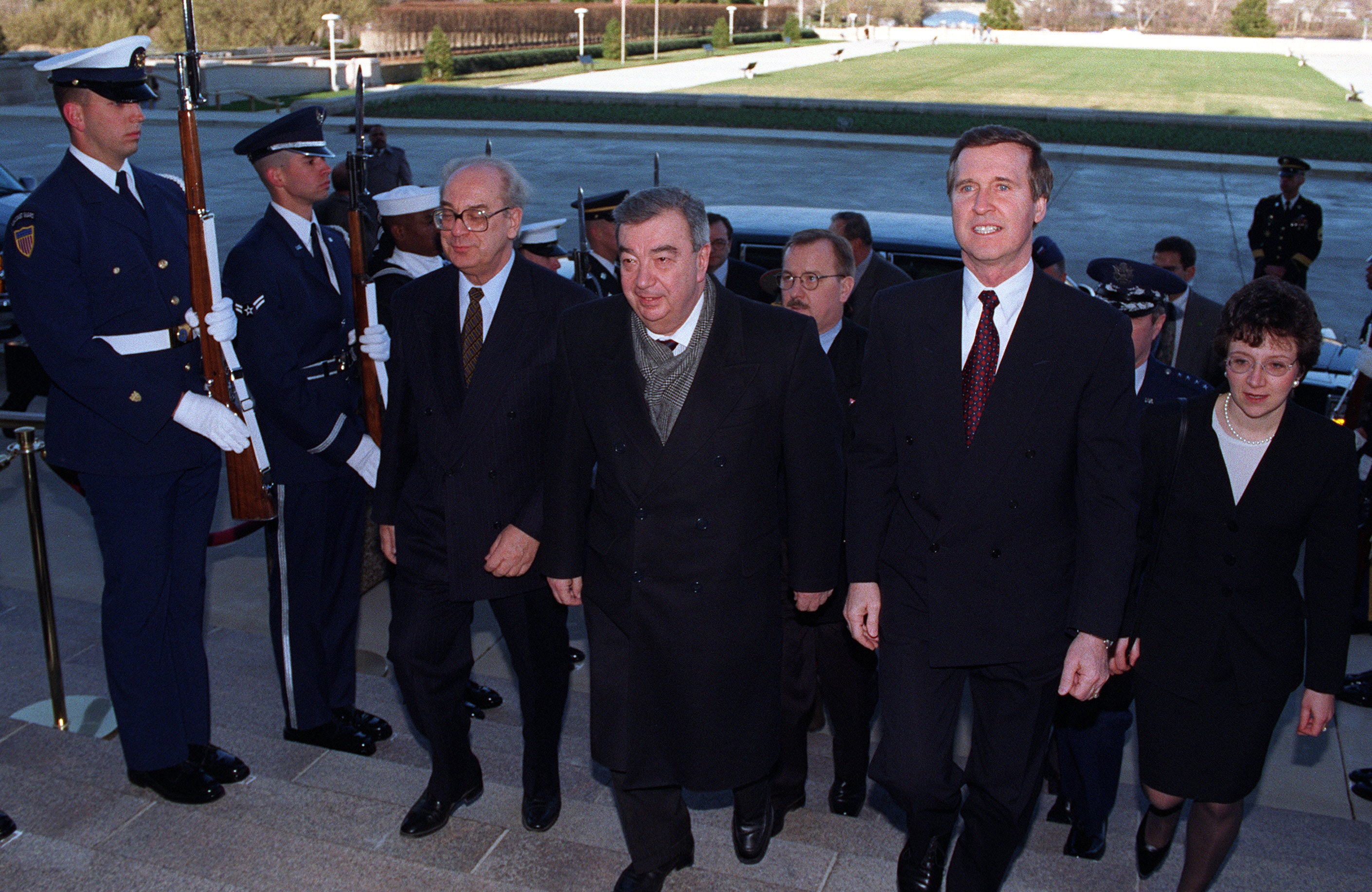 Secretary of Defense William S. Cohen (right) escorts visiting Russian Foreign Minister Yevgeny Primakov (center) into the Pentagon, March 16, 1997, where the two men met to discuss a variety of issues of mutual interest to both nations.